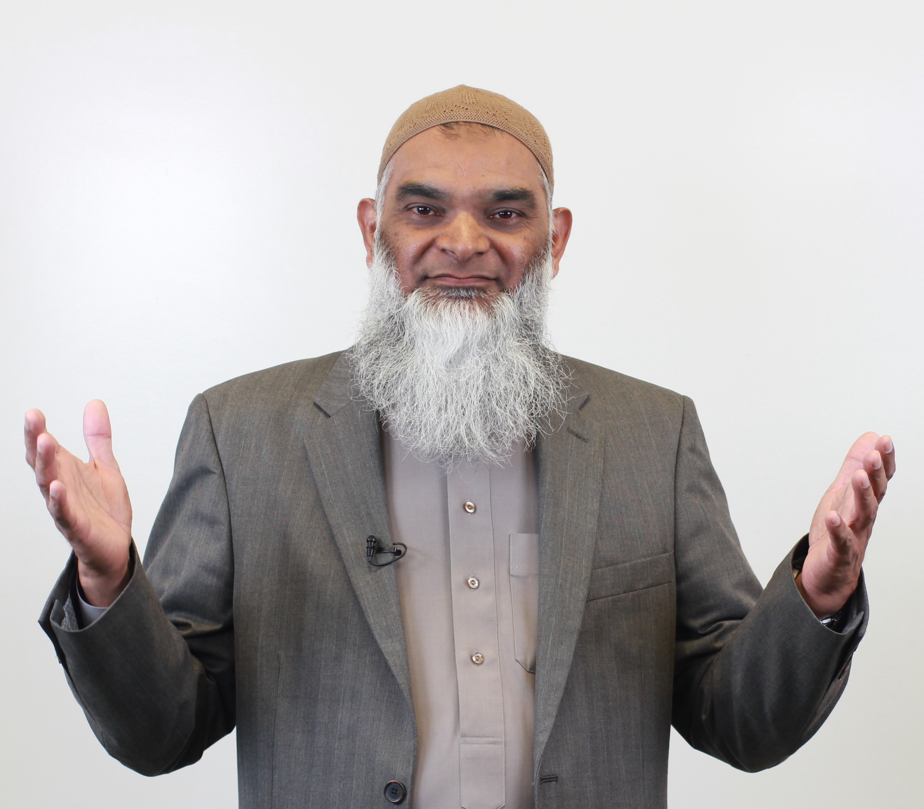 Muslim apologist and debater Dr. Shabir Ally with open arms.